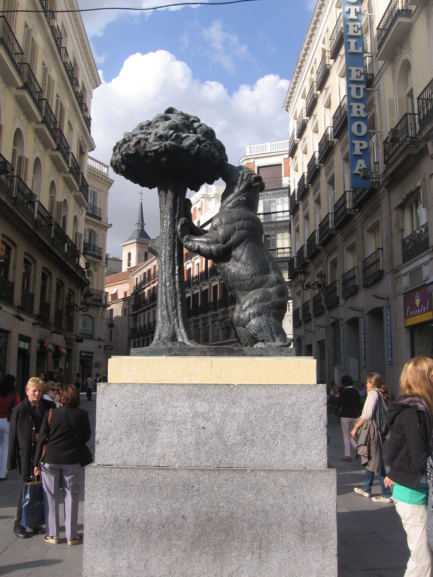 Puerta Del Sol, Madrid: statue of the Bear and the Madroño Tree.